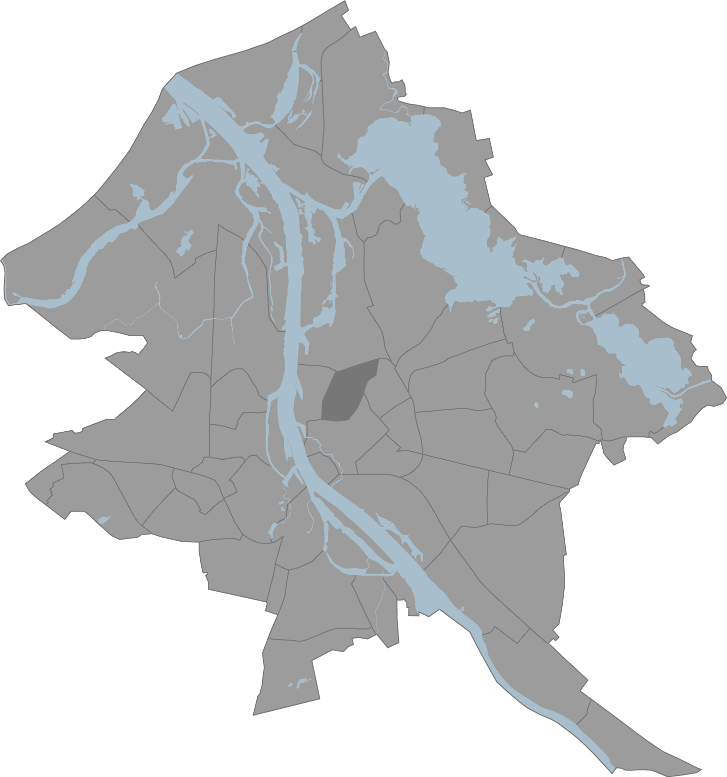 A map of Riga, Latvia with the eponymous commune highlighted